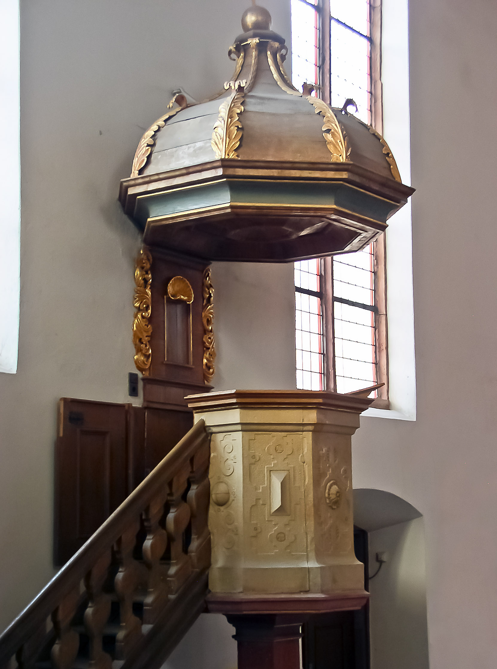 Pulpit in the Holy Spirit Church of Speyer